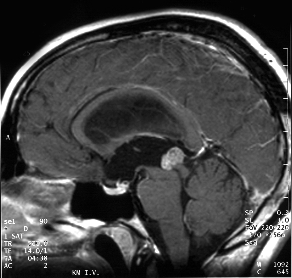 MRI of papillary tumor of the pineal region (PTPR) in an 18-year old boy. Sagittal T1+Gd. Image modified to obscure patient identity.